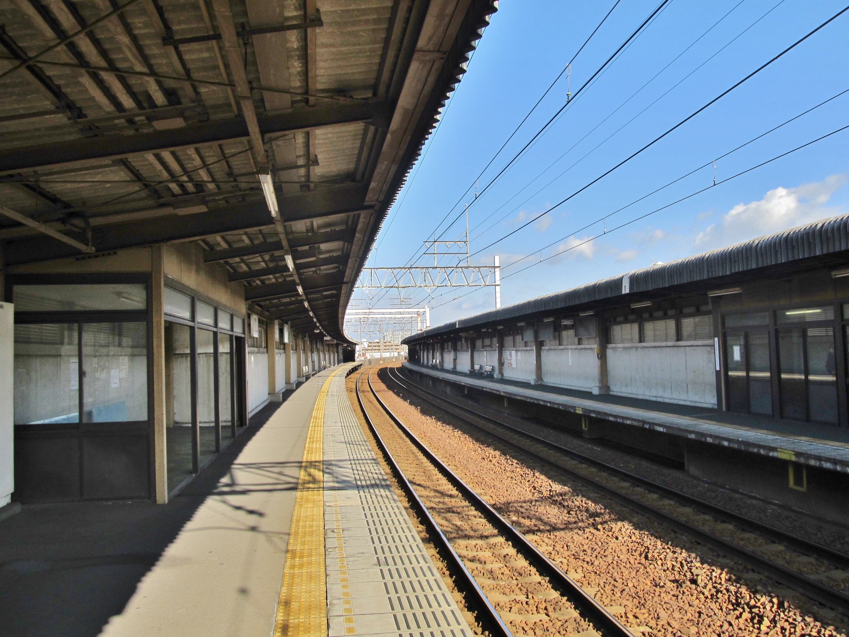 Nagoya Railroad Nagoya Main Line Myōkōji Station Platform